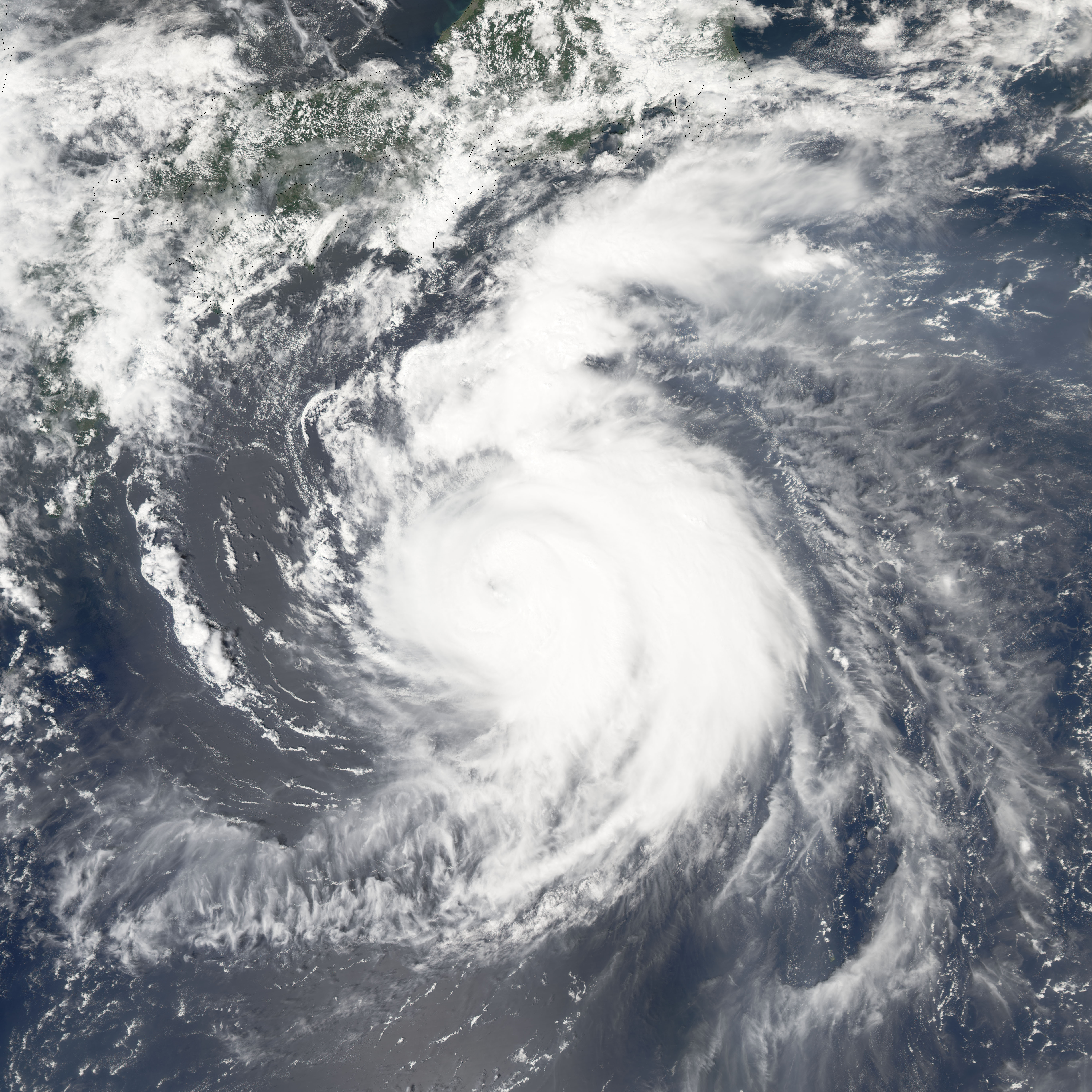 Satellite imagery of Typhoon 200511 (Asia name:MAWAR.)